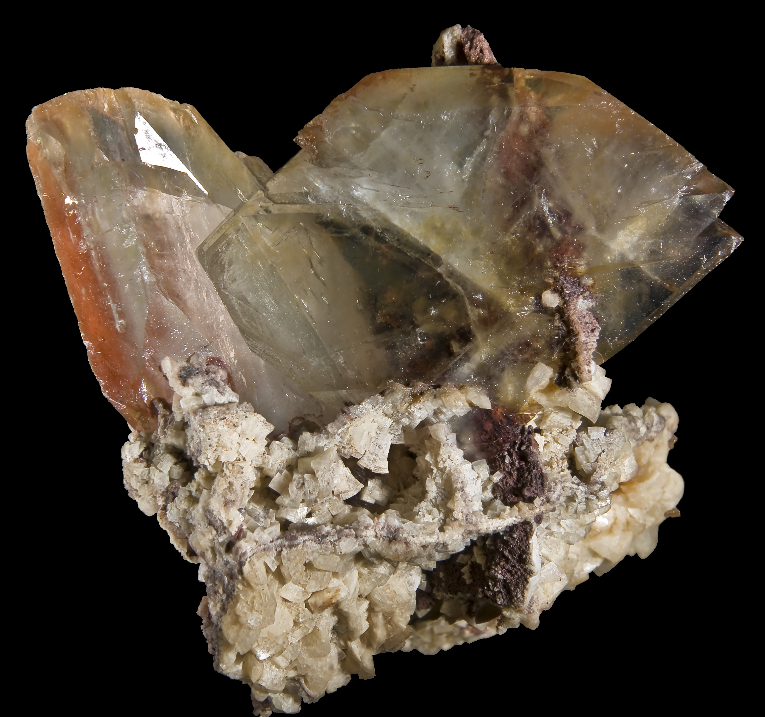 Baryte and dolomite Locality : Frizington, West Cumberland Iron Field, North and Western Region (Cumberland), Cumbria, England, UK Size : 5.4x 4.6x 3.8cm